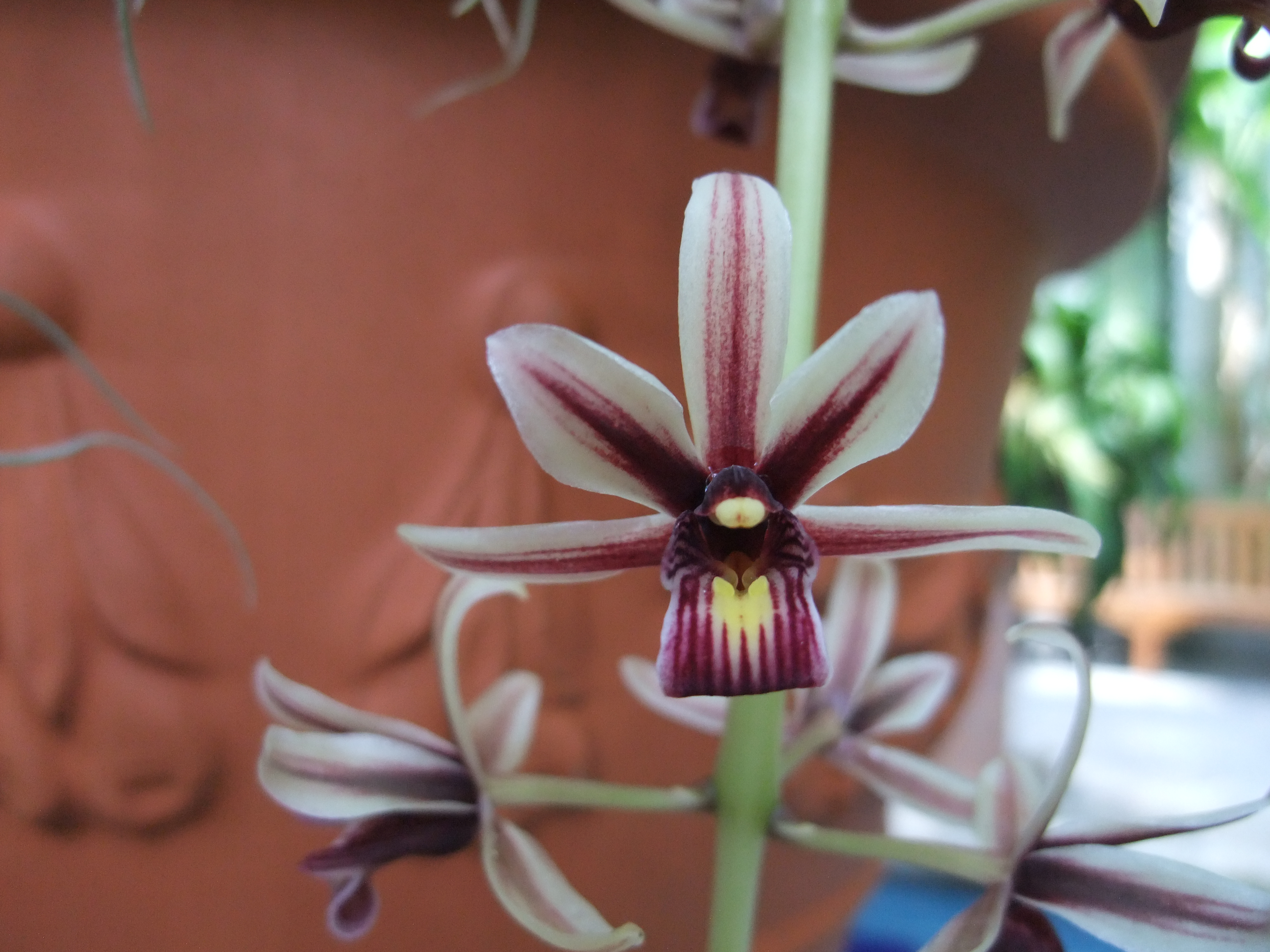 A closeup photograph of a Cymbidium aloifolium flower.